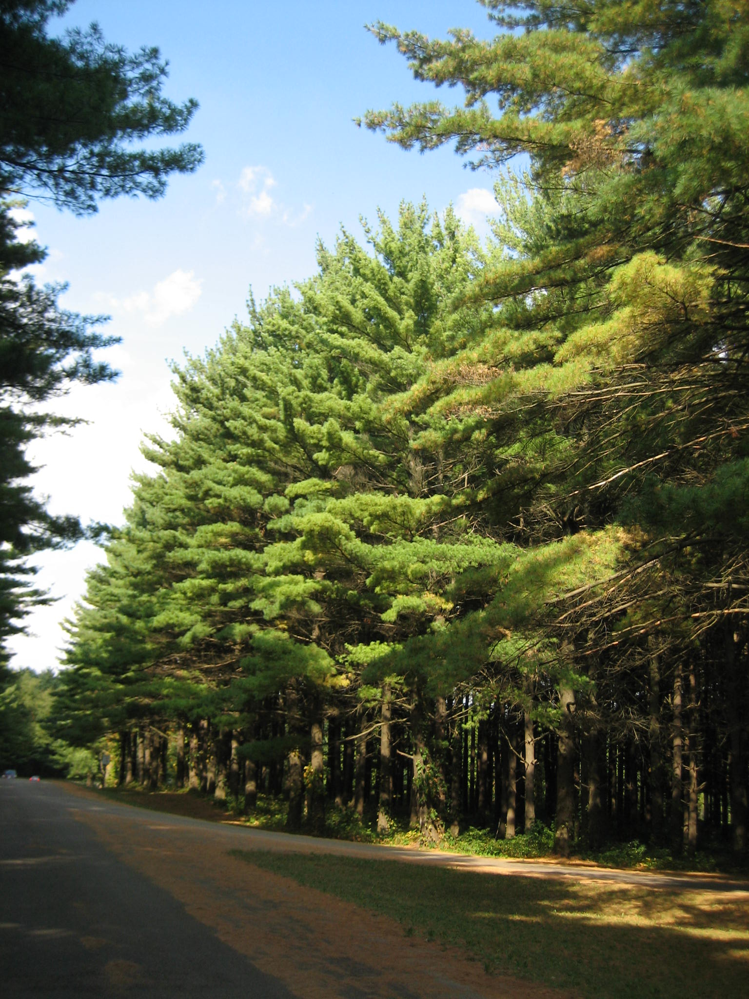 White Pines Forest State Park, near Polo and Byron, Illinois. A portion of the southernmost native White Pine stand in Illinois.